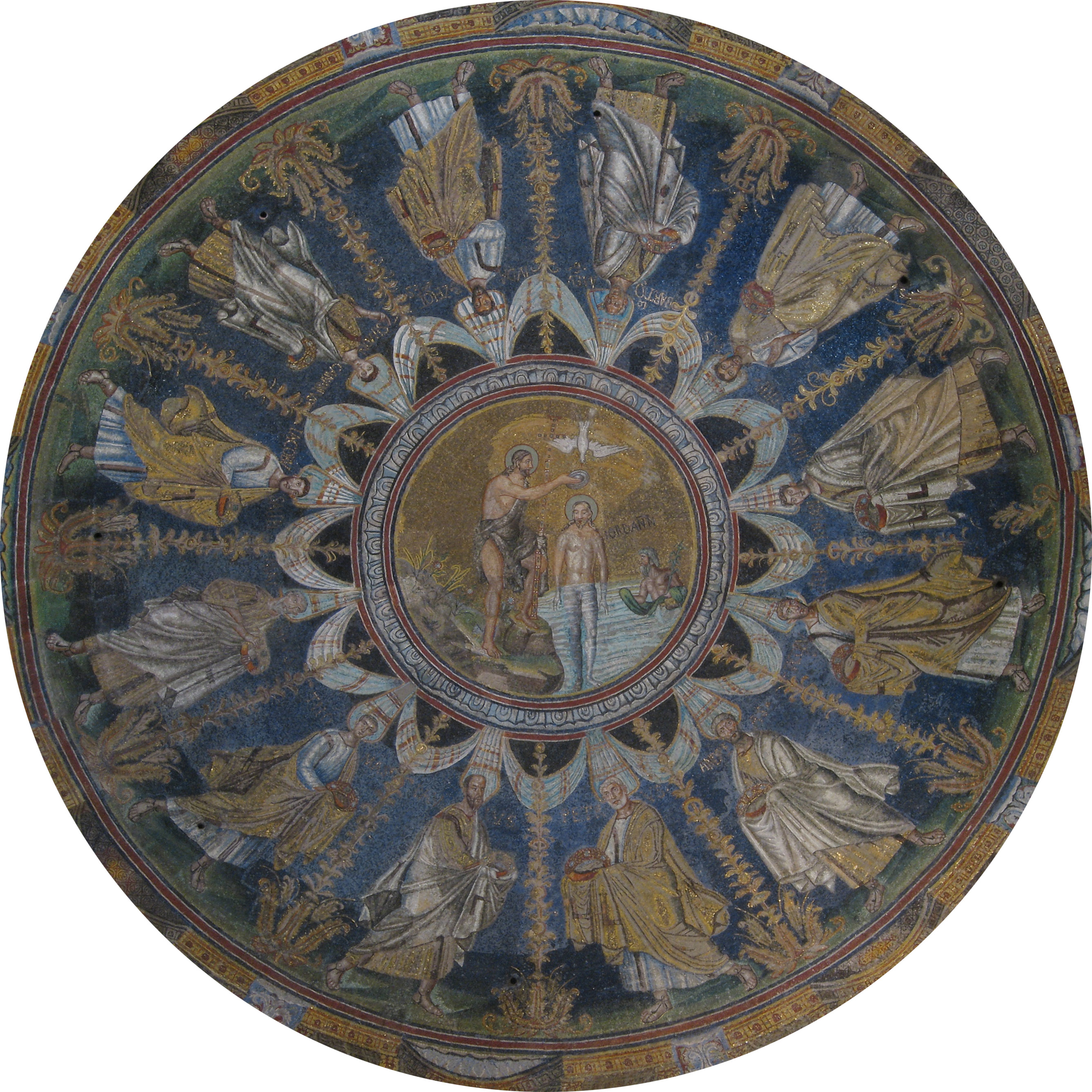 The ceiling mosaic of the Baptisery of Neon in Ravenna (second an third circle; the first circle is not in the picture). Around 1900. Today.